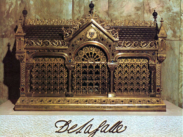 Relics of John Baptist de La Salle in the Casa Generaliza in Rome, Italy.